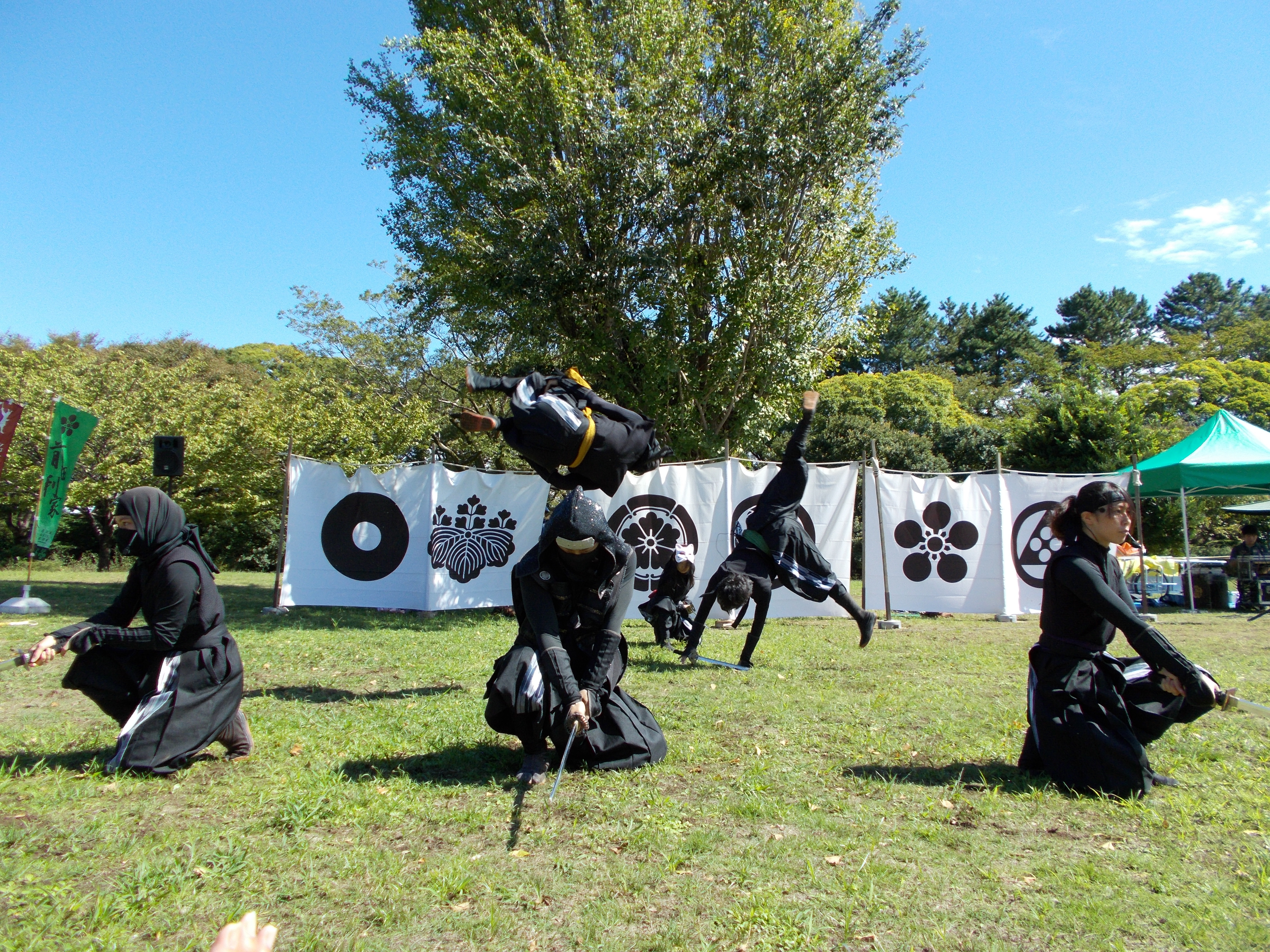 Act to Hattori Hanzō, Hattori Hanzō and the Ninjas. Loc: Nagoya castle, Nagoya city, Aichi Prefecture, Japan. 徳川家康と服部半蔵忍者隊 撮影場所 愛知県名古屋市・名古屋城